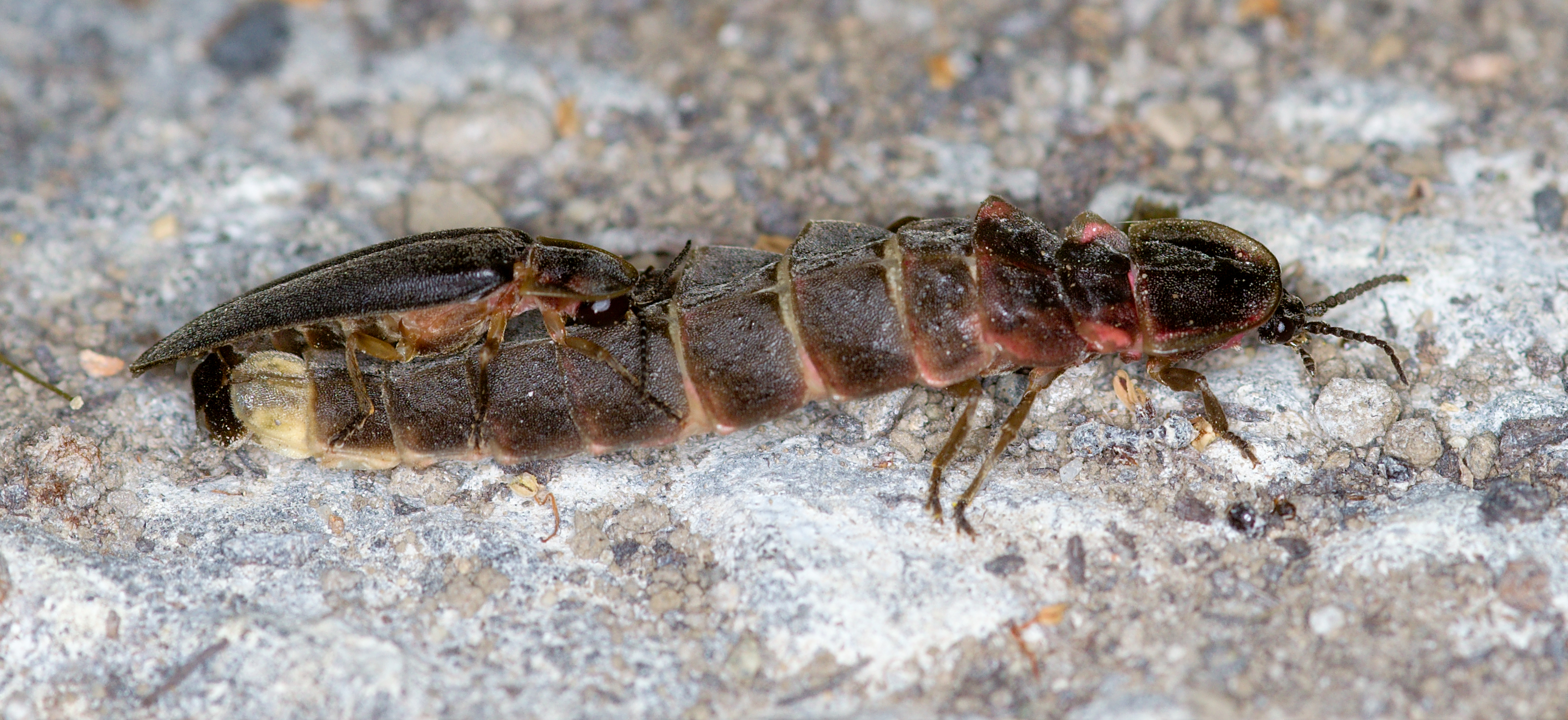 Mating Lampyris noctiluca